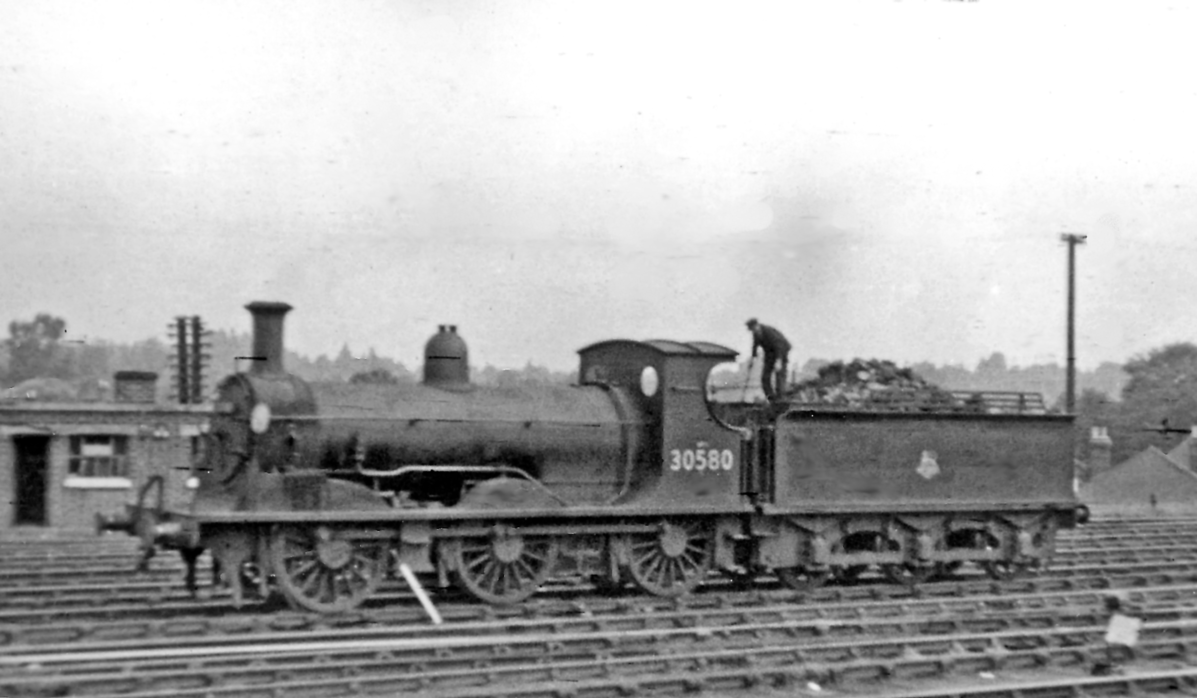 Ex-LSWR '0395' class 0-6-0 shunting at Woking. Shunting in the extensive yards west of Woking station, No. 30580 is an ex-LSWR Adams 0-6-0, built as No. 506 in 12/1885, becoming No. 0506 then SR No. 3506 and BR No. 30580, to be withdrawn in 4/57.